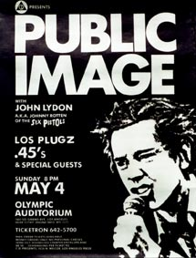 svg.jpeg image of Public Image Ltd poster. L.A. show, 1980. Concert sponsored by David Ferguson's CD Presents